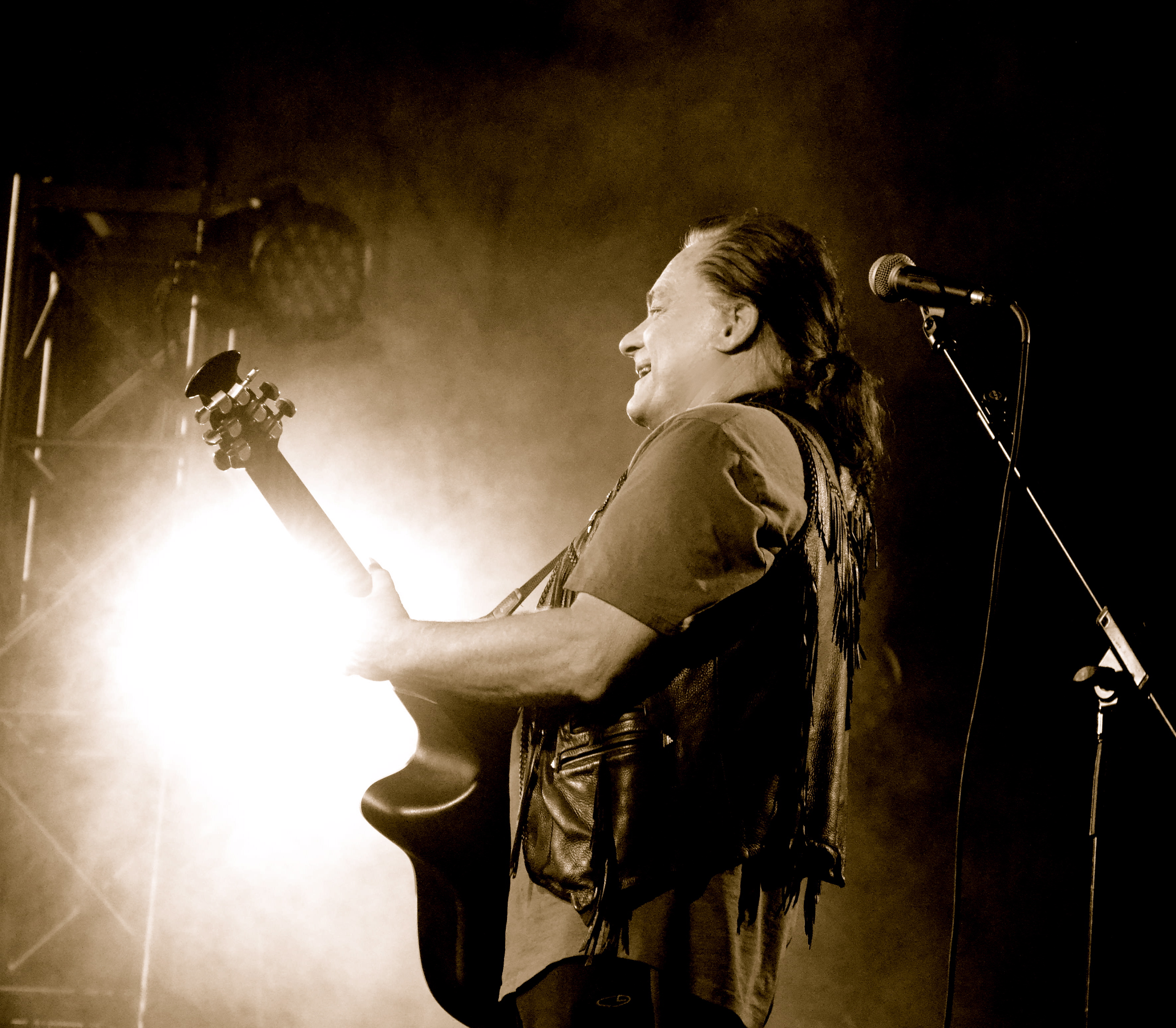 Marty Balin performing live. Heavy light source in background.